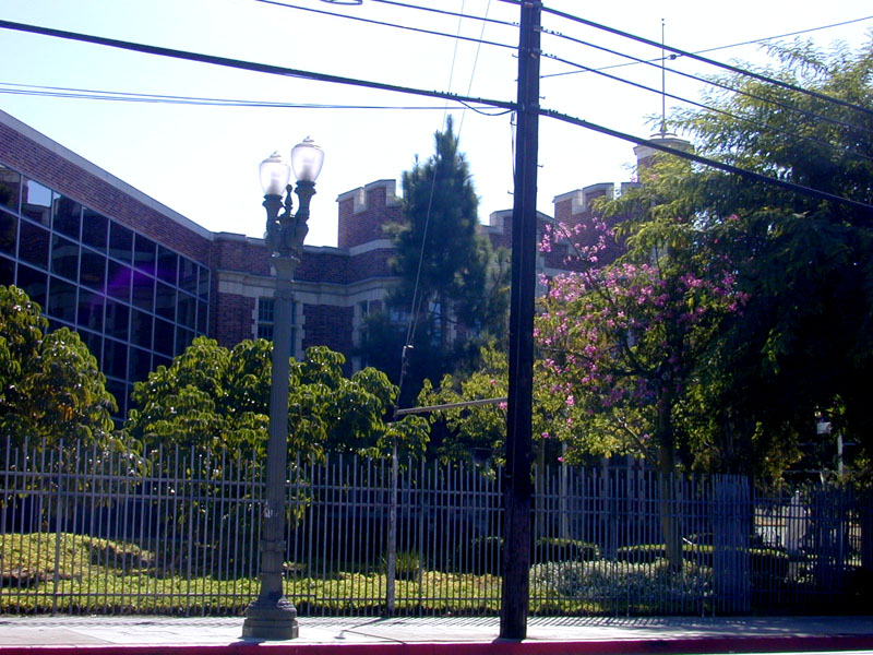 Bishop Conaty-Our Lady of Loretto High School — in the Harvard Heights district of west Central Los Angeles. A Roman Catholic girls' school, built in 1923.